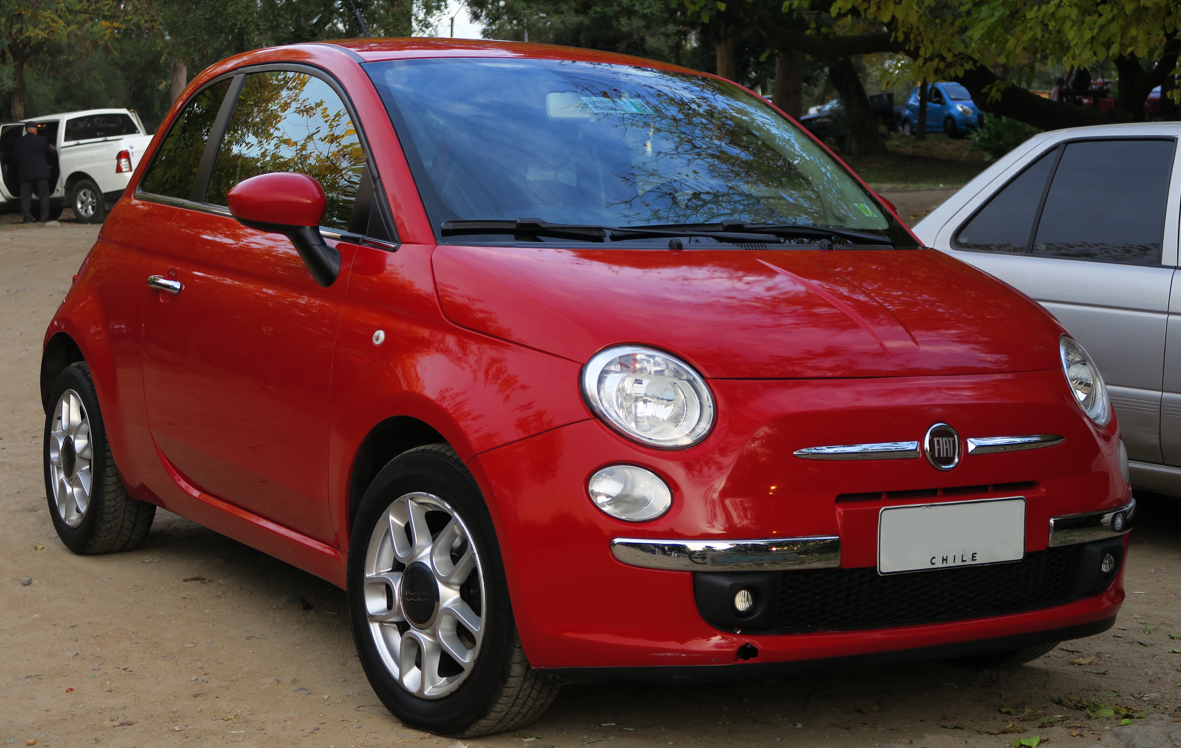 Fiat 500 1.4 Sport 2011